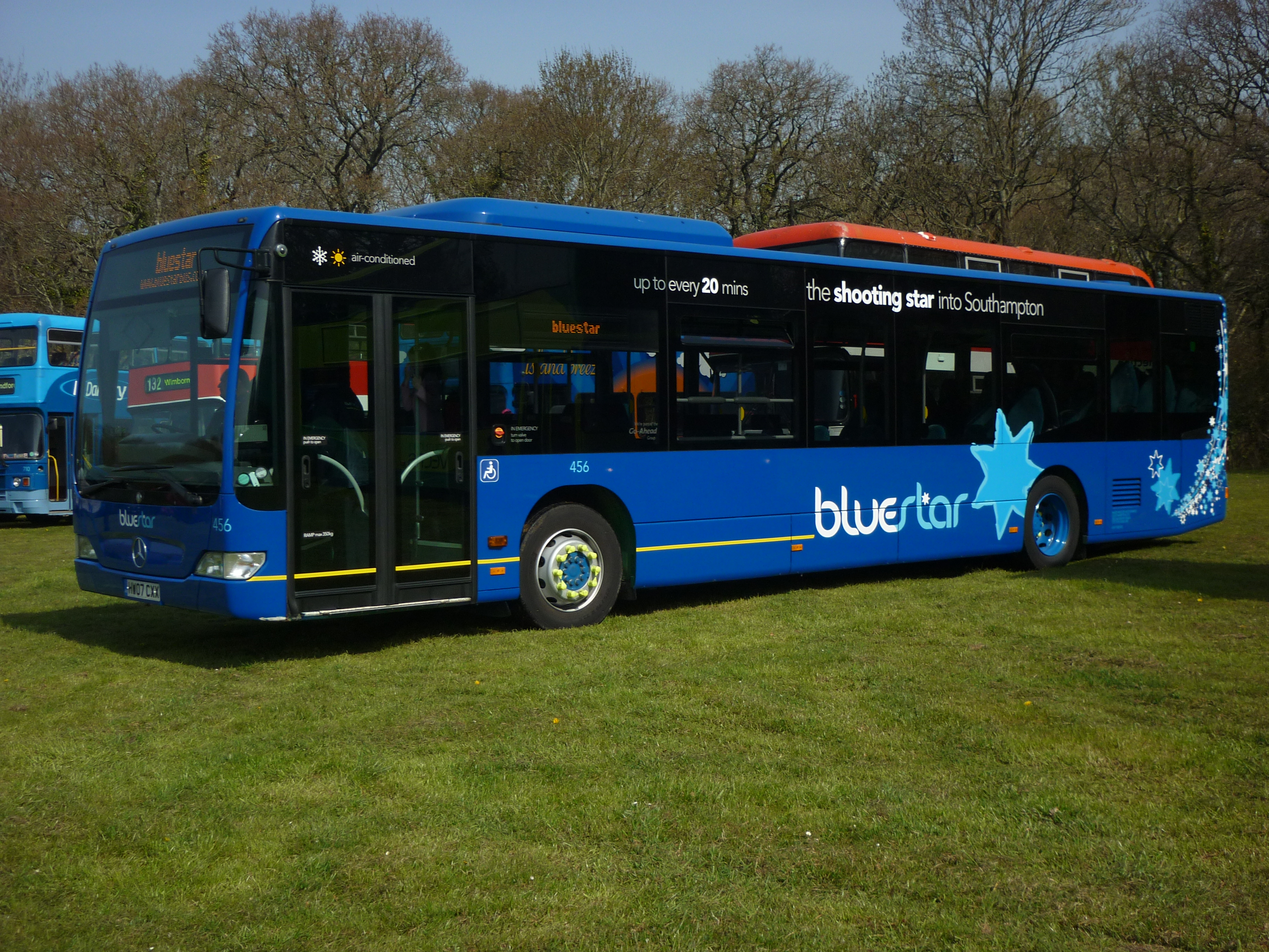 Bluestar 456 (HW07 CXX), a Mercedes-Benz Citaro, at the Southern Vectis Bustival event at Havenstreet station, on 18 April 2010. The bus was actually new to Southern Vectis (hence its attendance at the event), and moved to Bluestar in February 2010.